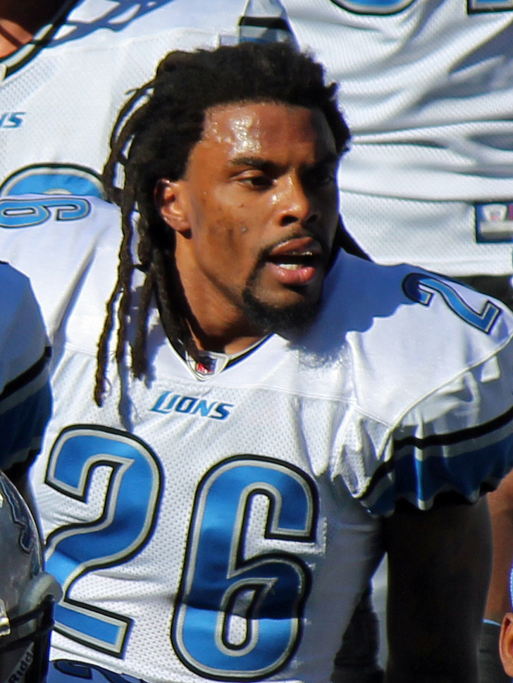 Louis Delmas, a National Football League player.